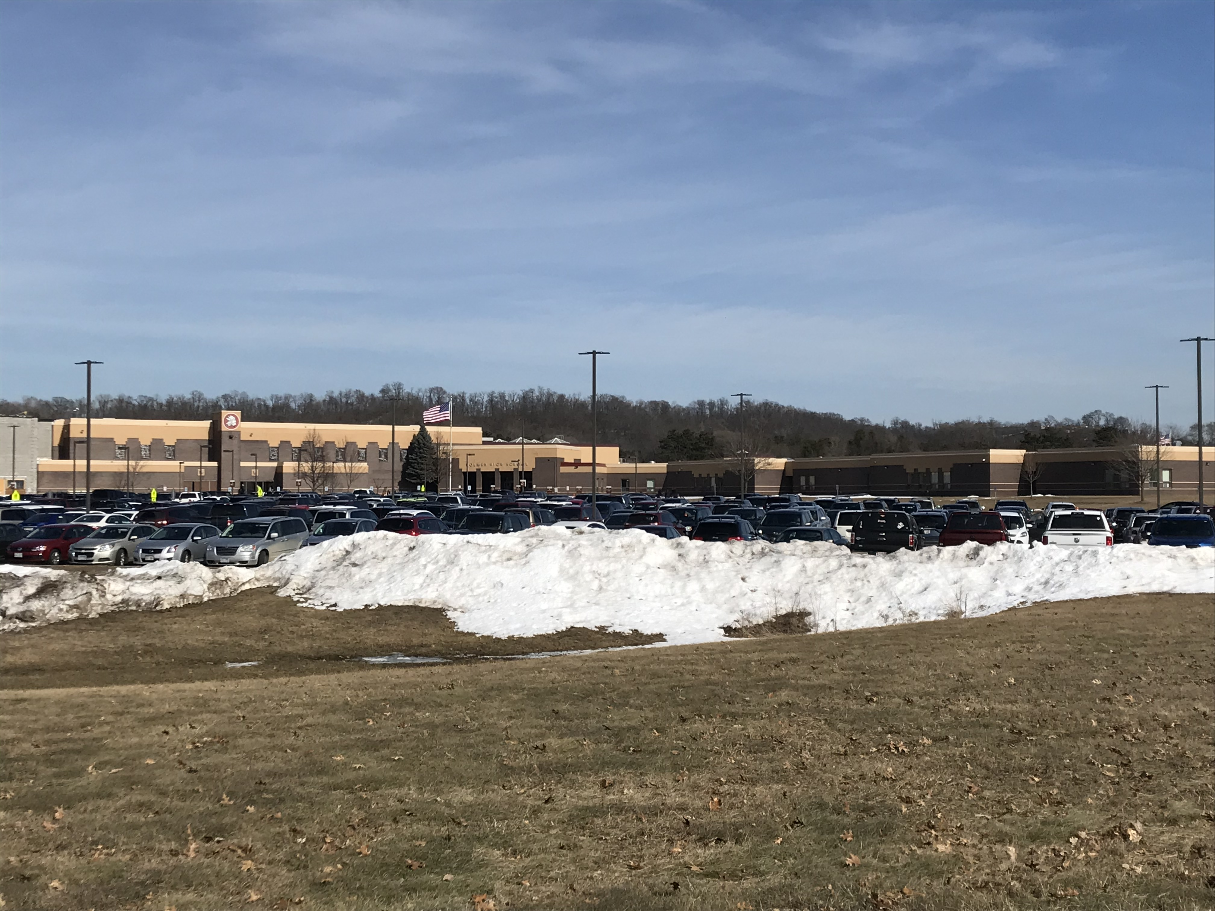 A wide view of Holmen High School in Holmen, Wisconsin, on March 7, 2020.